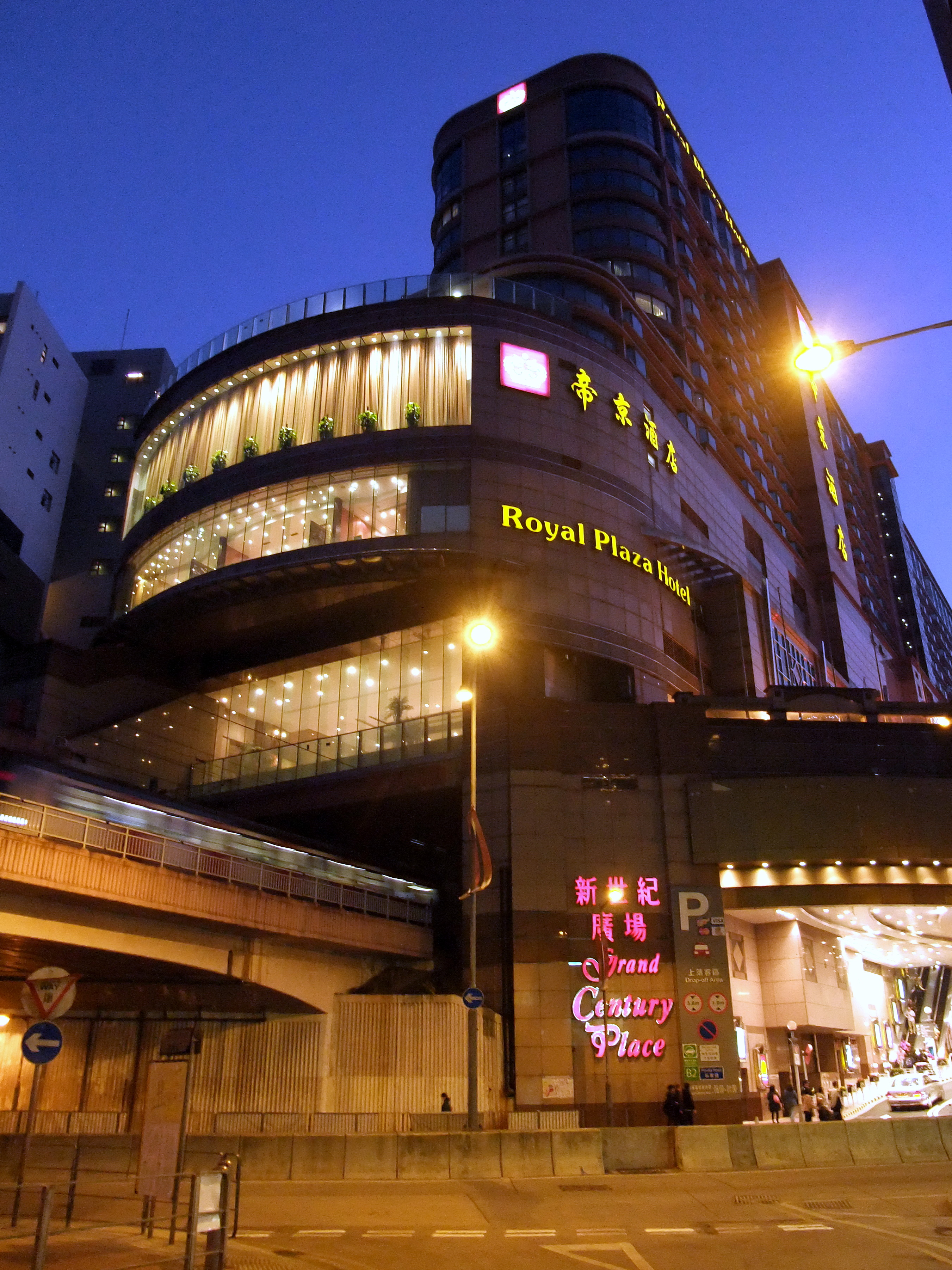 Royal Plaza Hotel in Mong Kok, Kowloon, Hong Kong. Seen from Prince Edward Road West